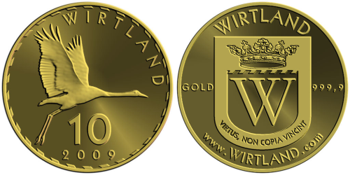 “Wirtland Crane” is considered to be the world’s first gold coin to be produced by an internet-based (virtual) country.